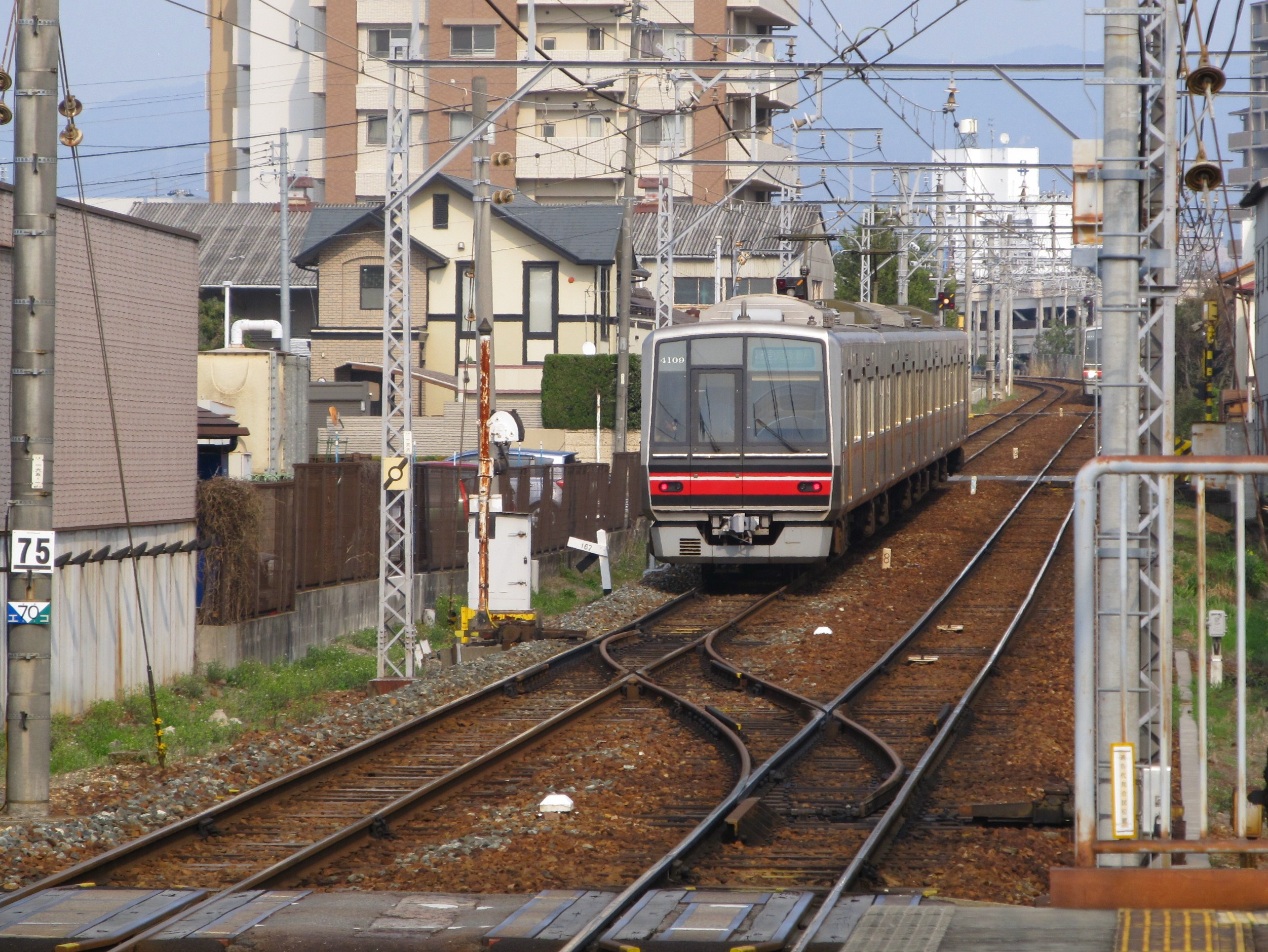 Nagoya Railroad Seto Line Sangō Station Crossover Track